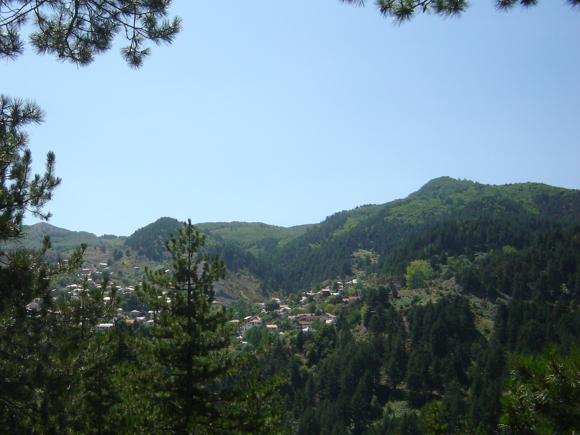 Made By Hector (ie myself)